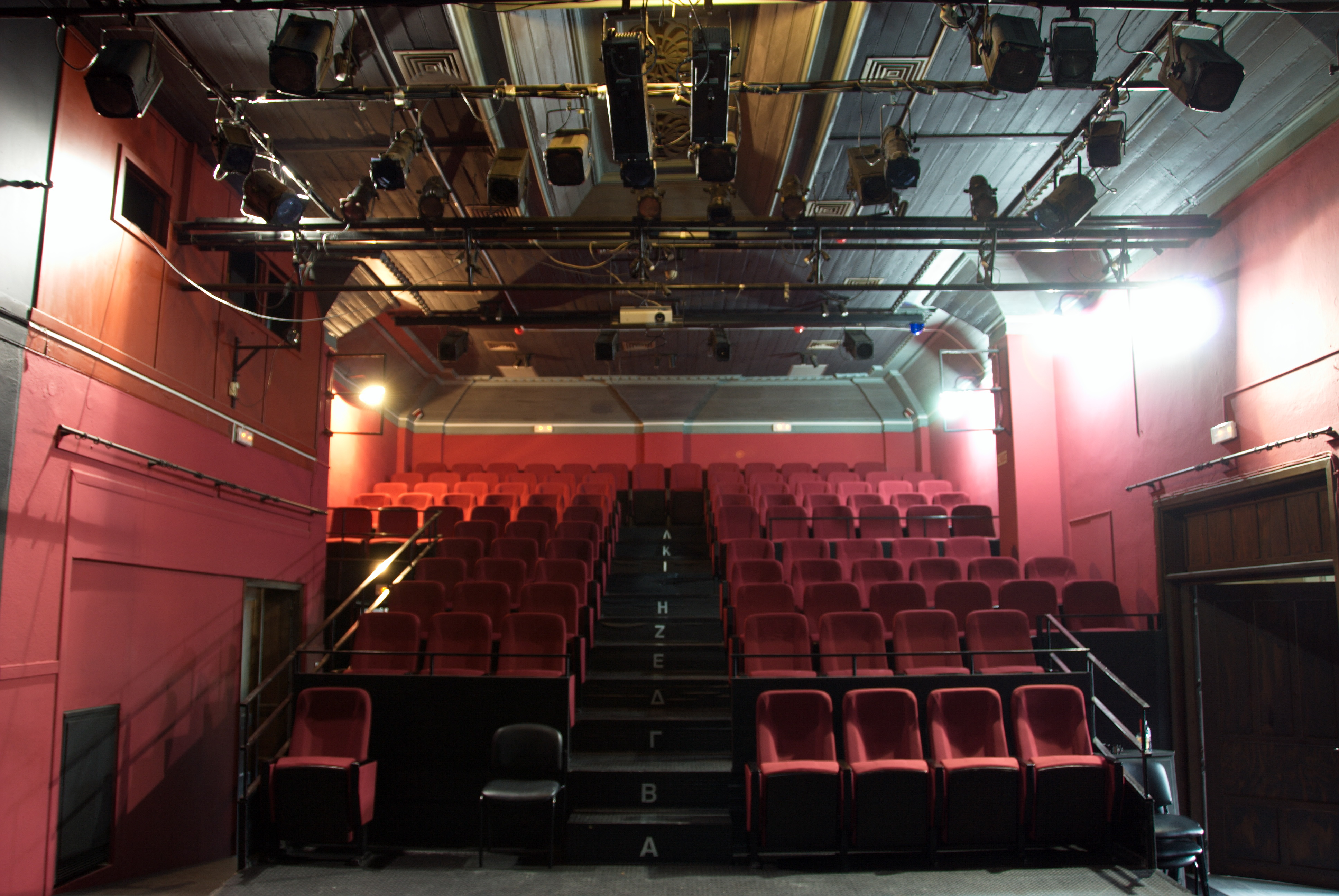 Amphitheater of Municipal and Regional Theatre of Komotini